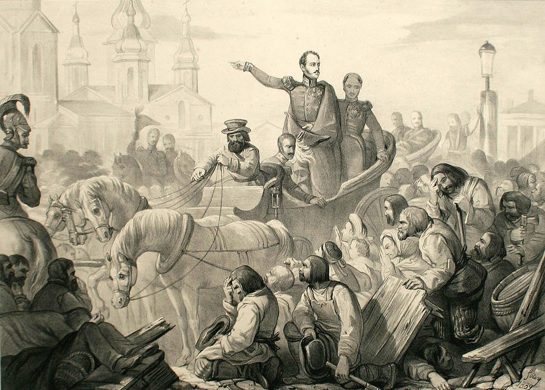 Nicholas I quells the cholera riot